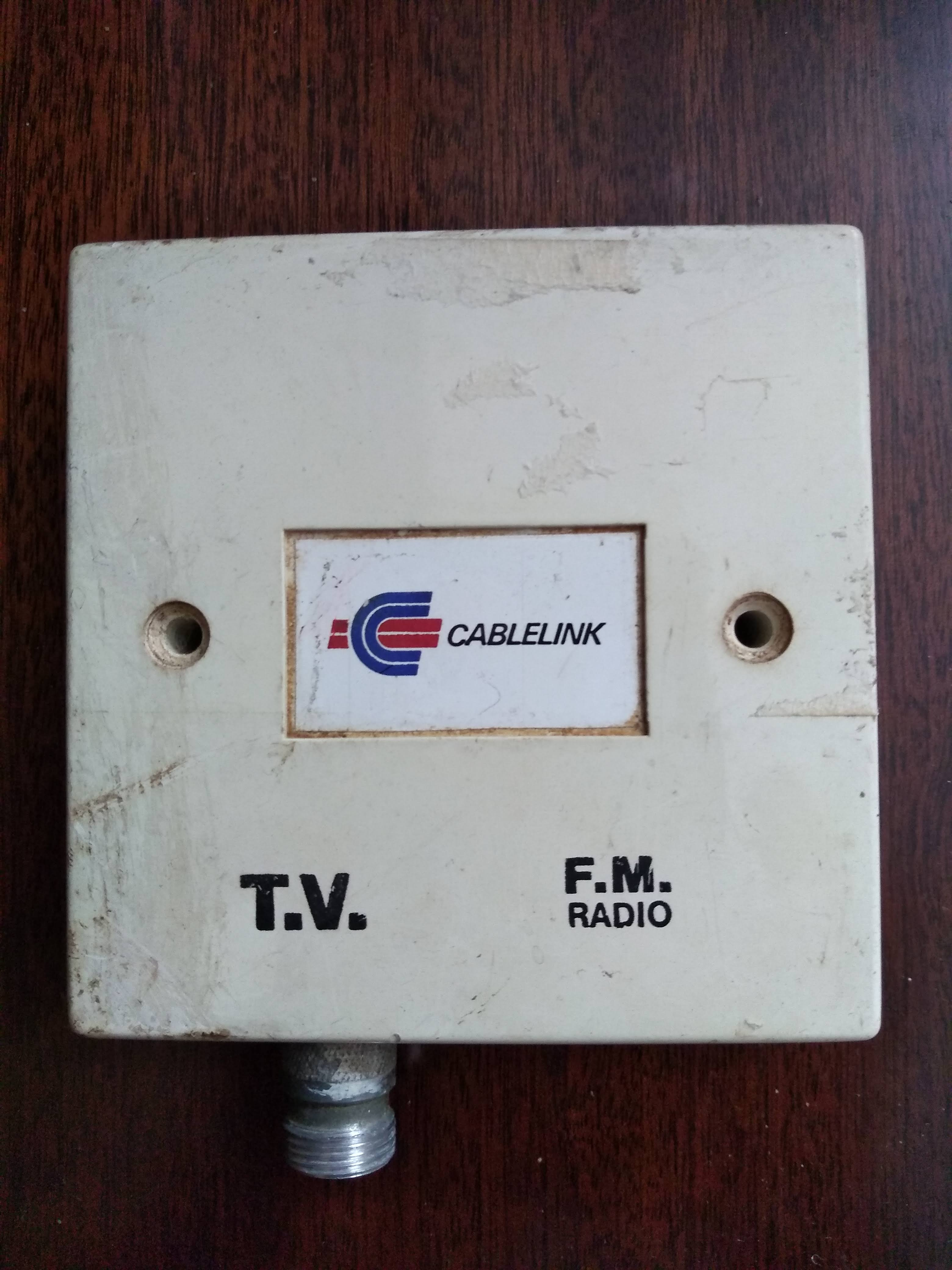 A close up of a Irish Cablelink TV F connector box with FM Radio outlet from late 1980s/early 1990s